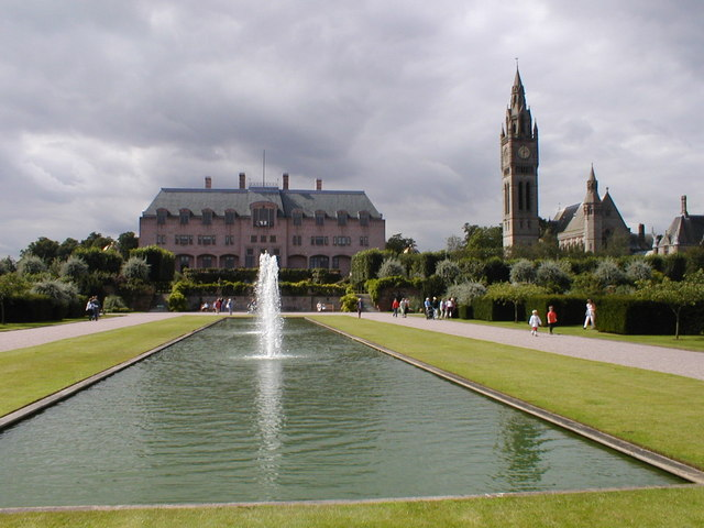 Eaton Hall, Eccleston Taken on an open day for charity, this is the home of the Duke and Duchess of Westminster.